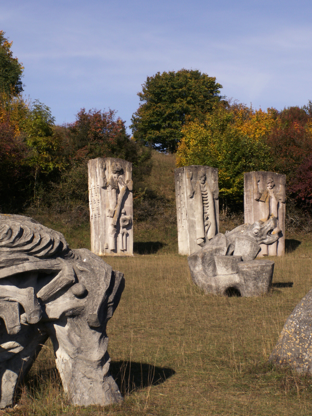 Alois Wünsche-Mitterecker, Field of Figures, - Memorial for Peace and Freedom – against War and Violence, Germany, Bavaria, Eichstätt/Hessental